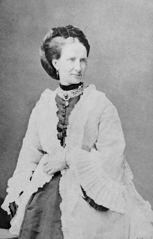 Harriet Warrack by George Washington Wilson date guessed at as 2 jan 1890